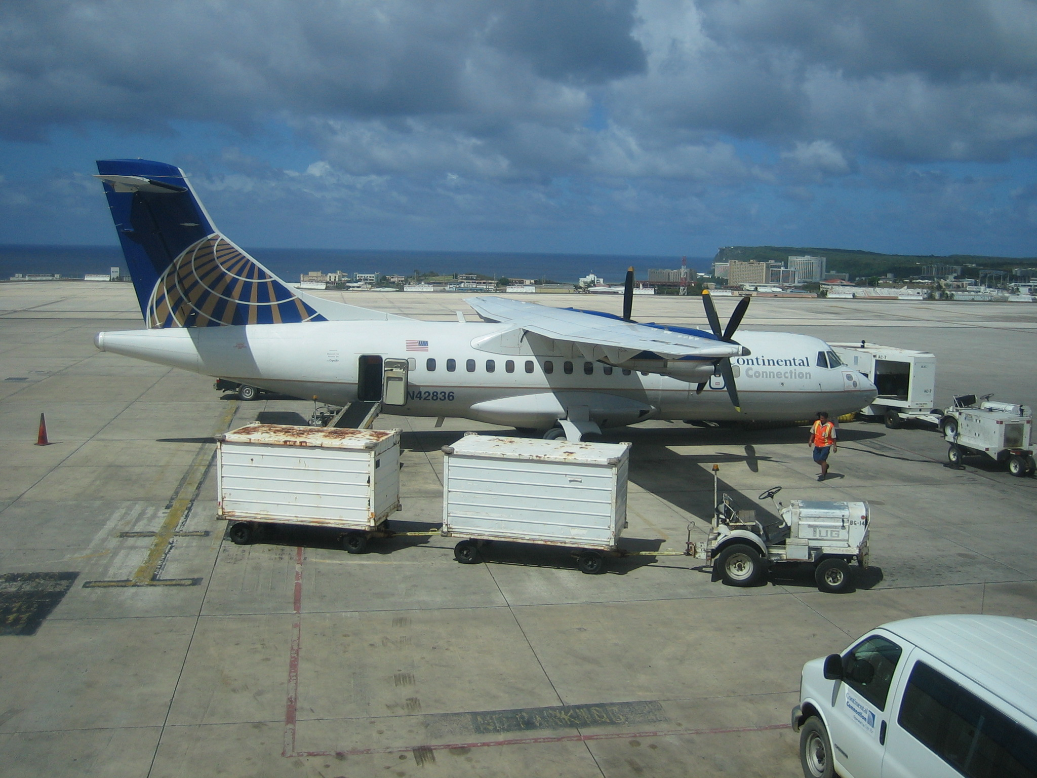 A Cape Air ATR 42 about to depart Guam (Antonio_B._Won_Pat_International_Airport) for Saipan (Saipan International Airport)